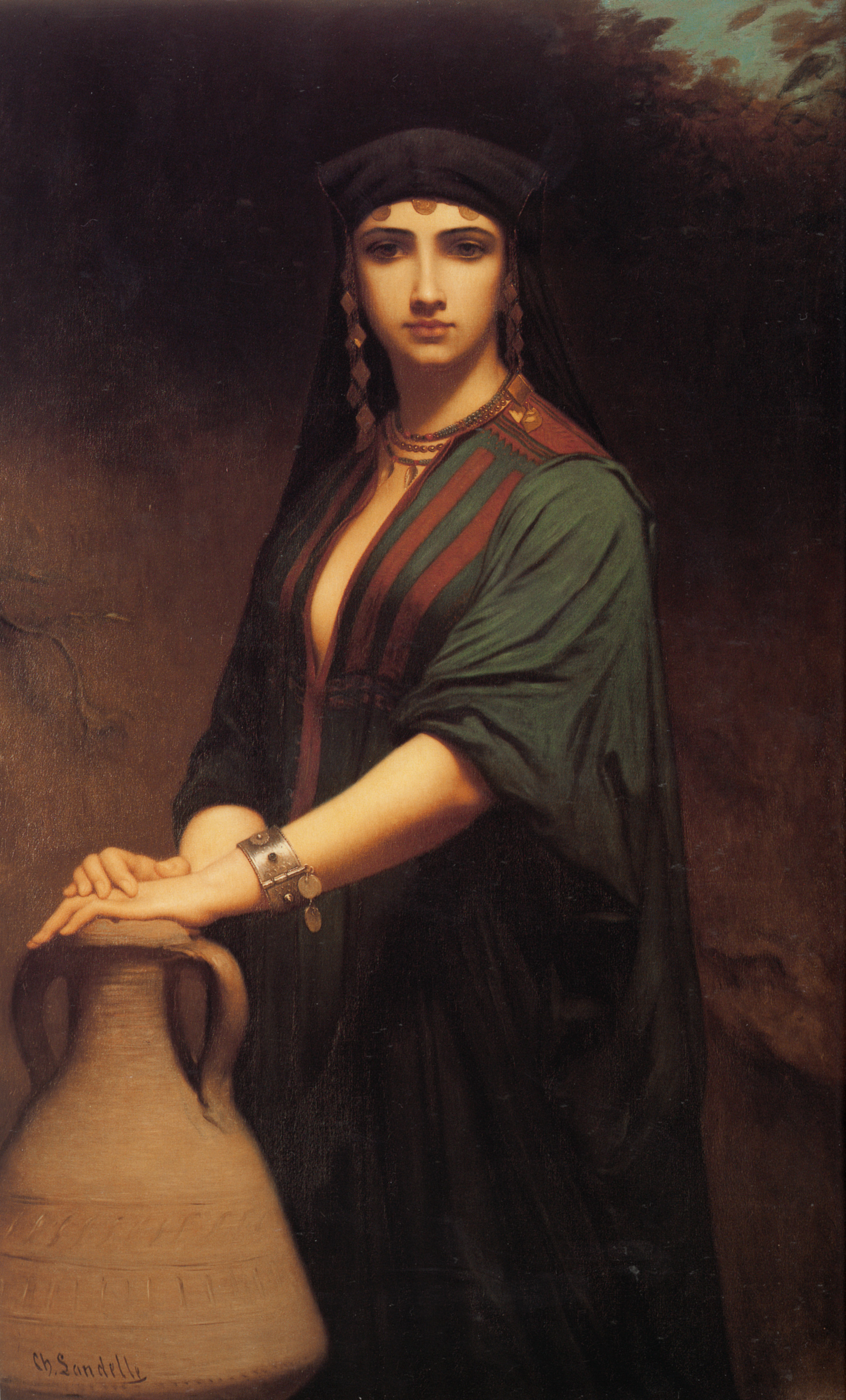 Female Fellah